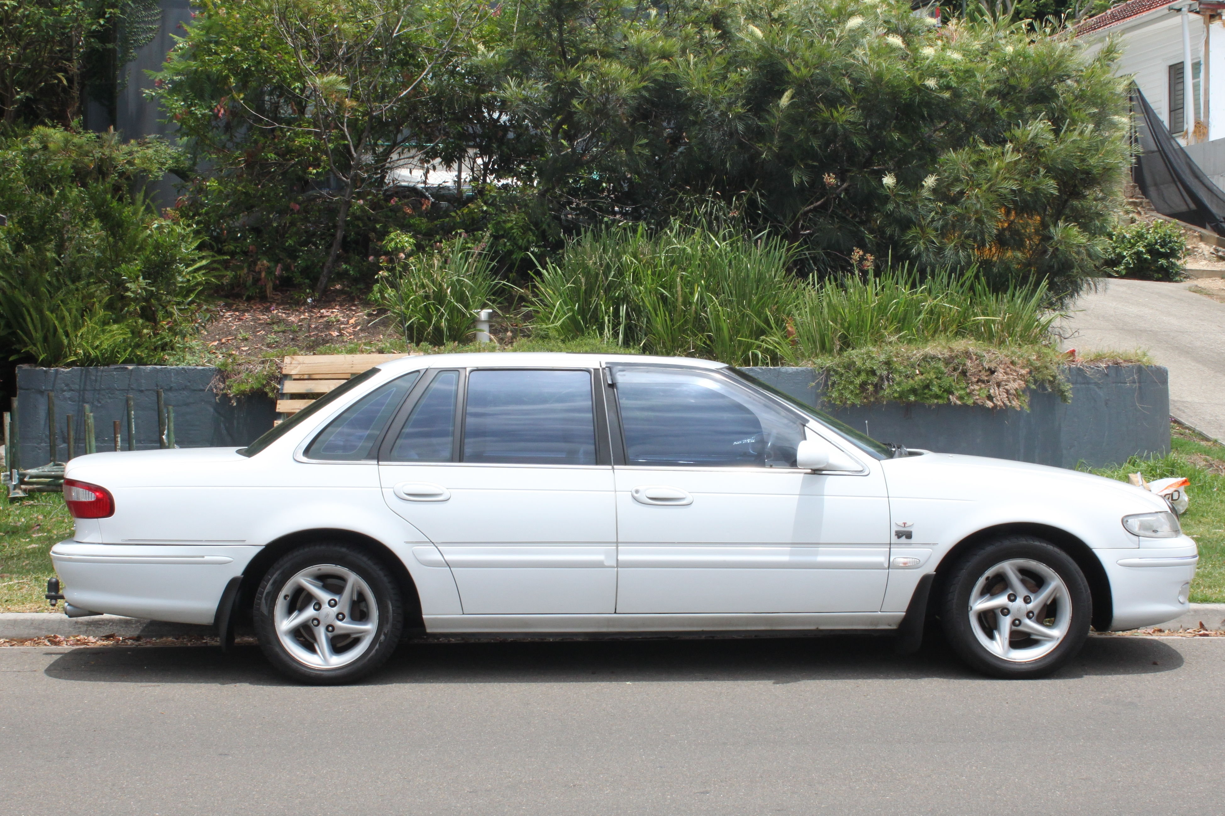 Ford Fairlane NF (with LTD grille)